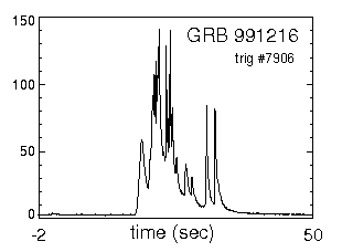 Light curve of GRB 991216